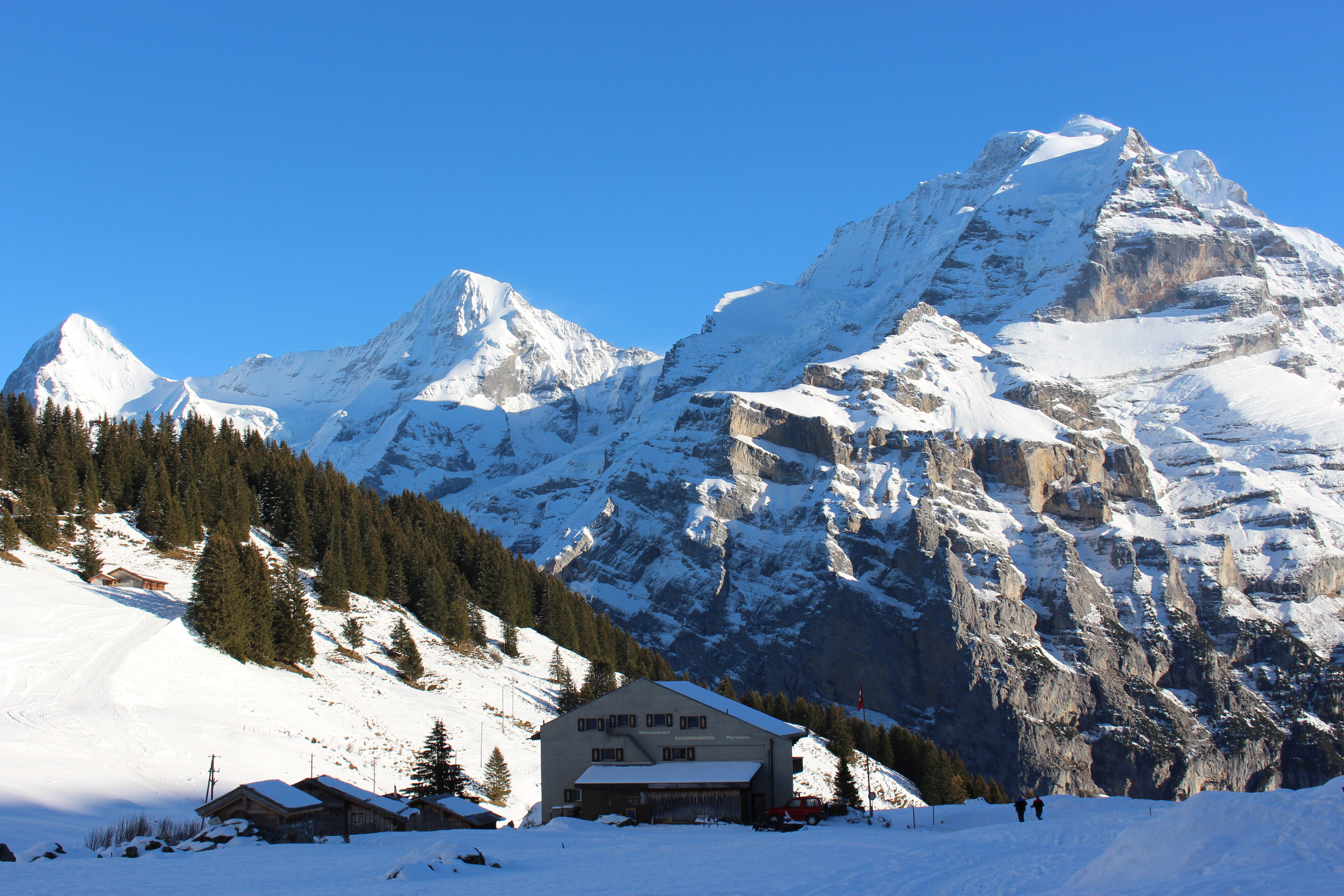 Photos of a helicopter flight around the Bernese Alps; start of the flight was in Lauterbrunnen.